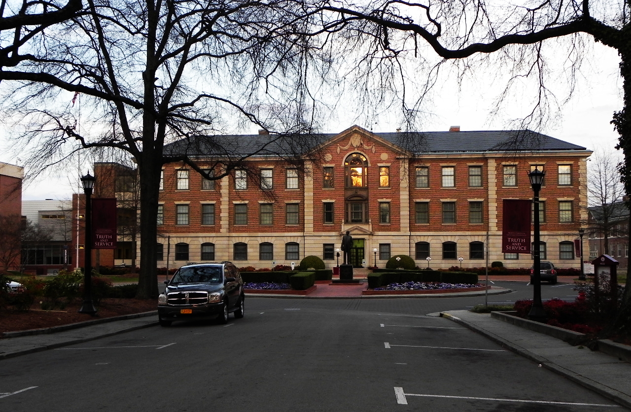 A view of the main entrance into the North Carolina Central University campus.